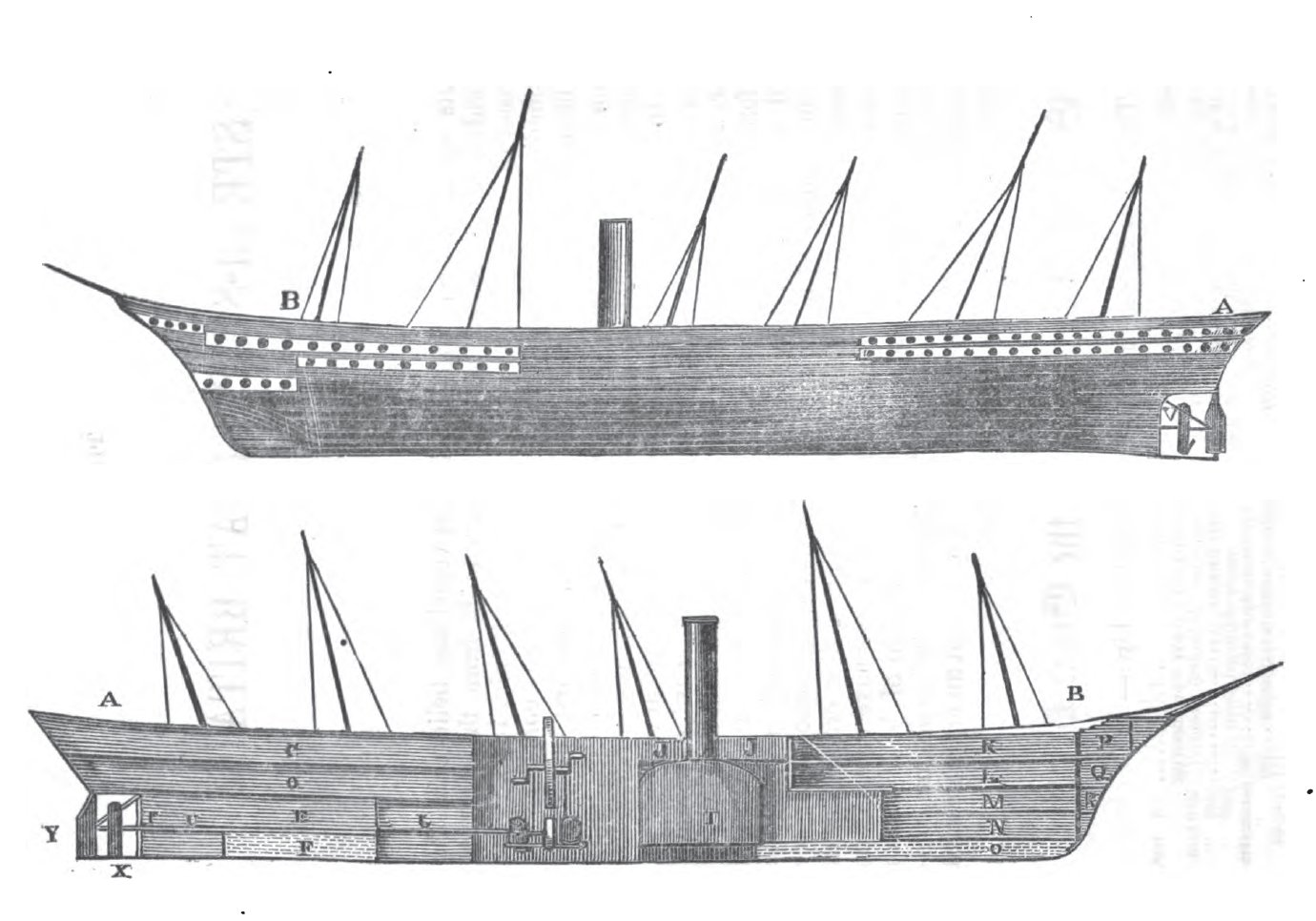 Profile (top) and longitudinal vertical section (bottom) of SS Great Britain, showing her interior layout and deck plan. Key to symbols in bottom image as follows (from Claxton, p. 6): A–B: Surface line of upper deck. C: Aft or promenade deck. D (looks like an "O" on the diagram): First class or dining saloon. E: Cargo deck. F: Iron fresh water tank. G: Coal store. H: Elevation of engines. I: Ditto of boiler. J–J: Iron deck over boiler, for cooking apparatus. K: Fore or second class saloon. L: Lower fore saloon. M and N: Iron-floored cargo decks. O: Air chamber from boiler to bulkhead, of the shape of the ship. P: Officers' berths. Q: Sailors' mess room. R: Sailors' berths; r: Small water tank. S: Water closets. T: Ship's stern post, through which the screw passes. U: Drive shaft, from engine to screw. V: Diagonal stay from the ship's side to the stern post. W: Side view of screw stern post, in which the end of the screw spindle revolves. X: Keel under the screw, uniting the stern post to the vessel. Y: Hollow rudder foot, and of such a thickness to receive the stern post, which forms its pivot.